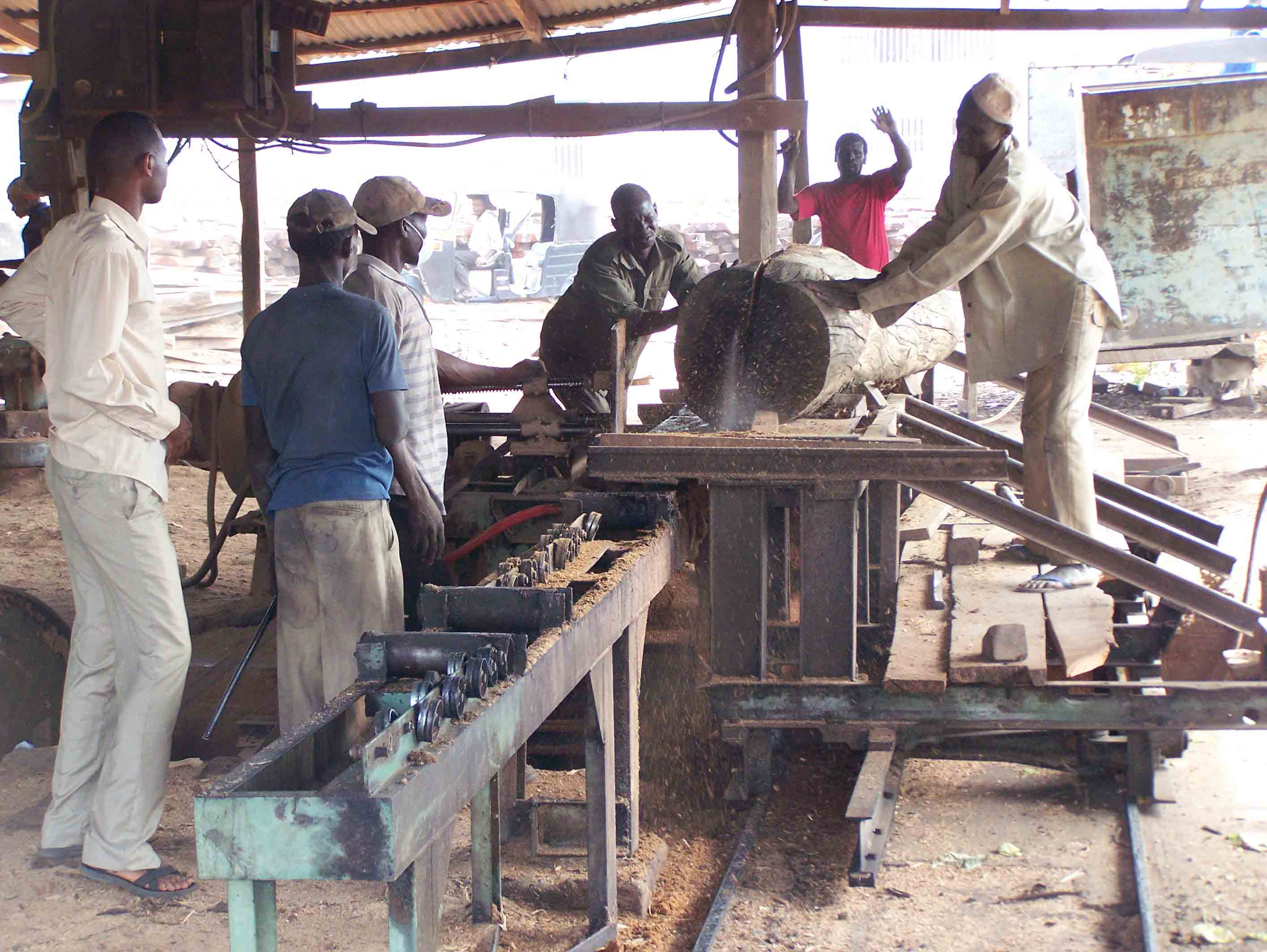 Production of railway sleepers using a circular saw in the saw mill Ad-Damazin